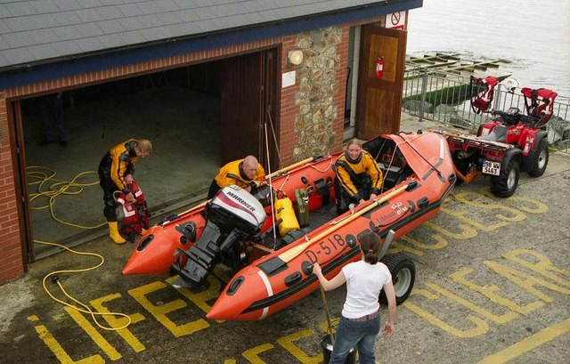 Wicklow lifeboat (2). See 641033. Wicklow also operates a "D" class inshore boat the "Imbhear Deas" (on station since 1997) seen on return from exercise and about to be washed by a helper.